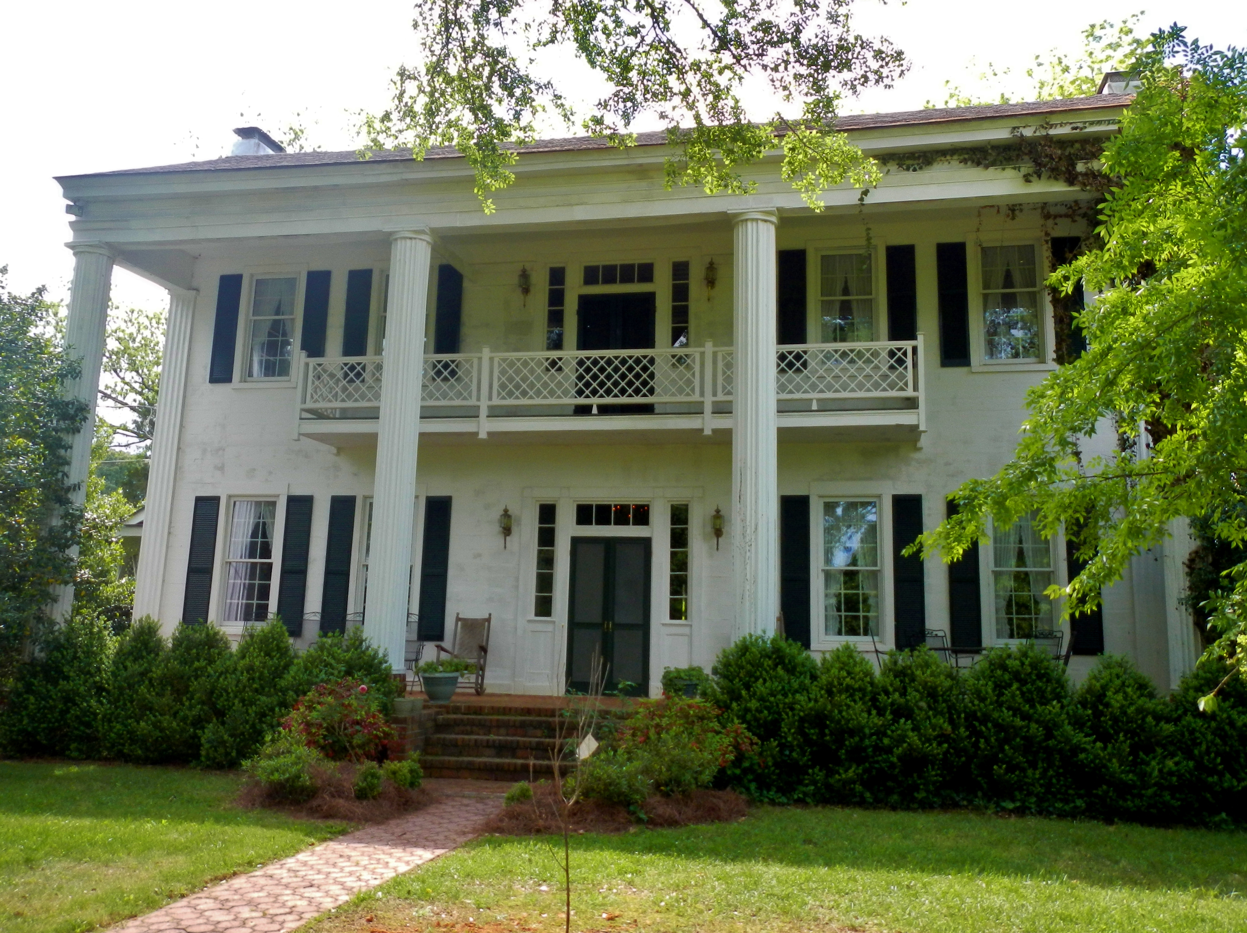 This is a photograph of Liberty Hill in Houston (aka "Liberty Hill"), Georgia. It was listed on the NRHP on February 24, 1975.